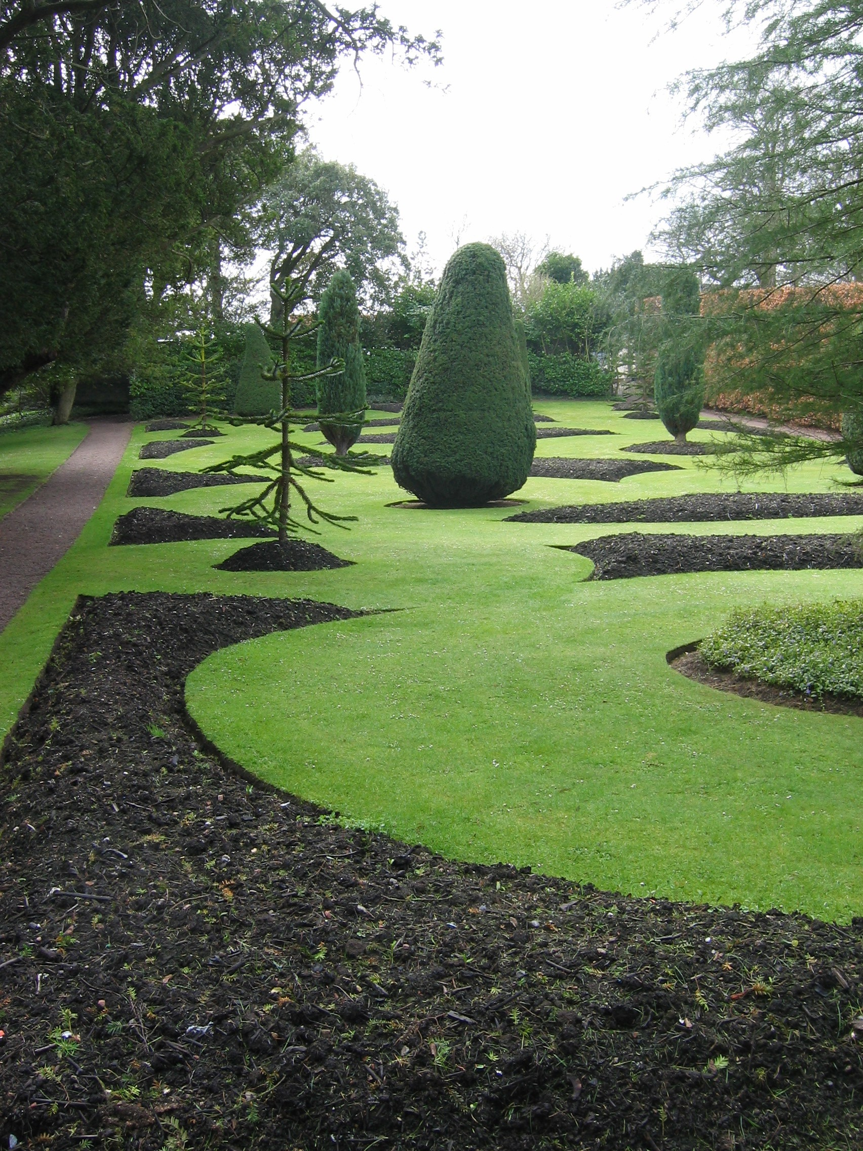 Garden in grounds of Dirleton Castle, East Lothian, Scotland